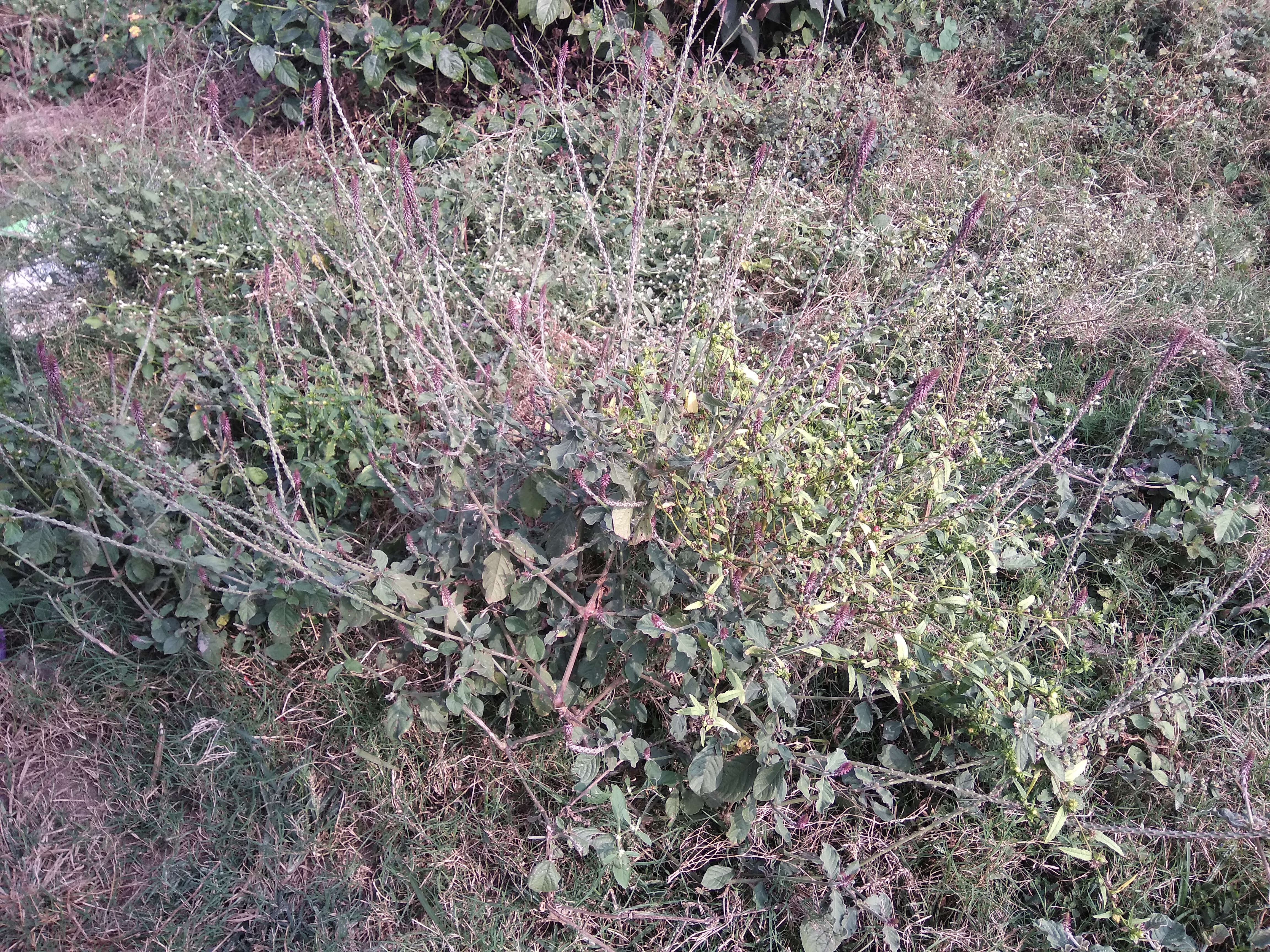 Achyranthes aspera, hindi name Chirchita (चिरचिटा) is a Ayurvedik Medicine plant.